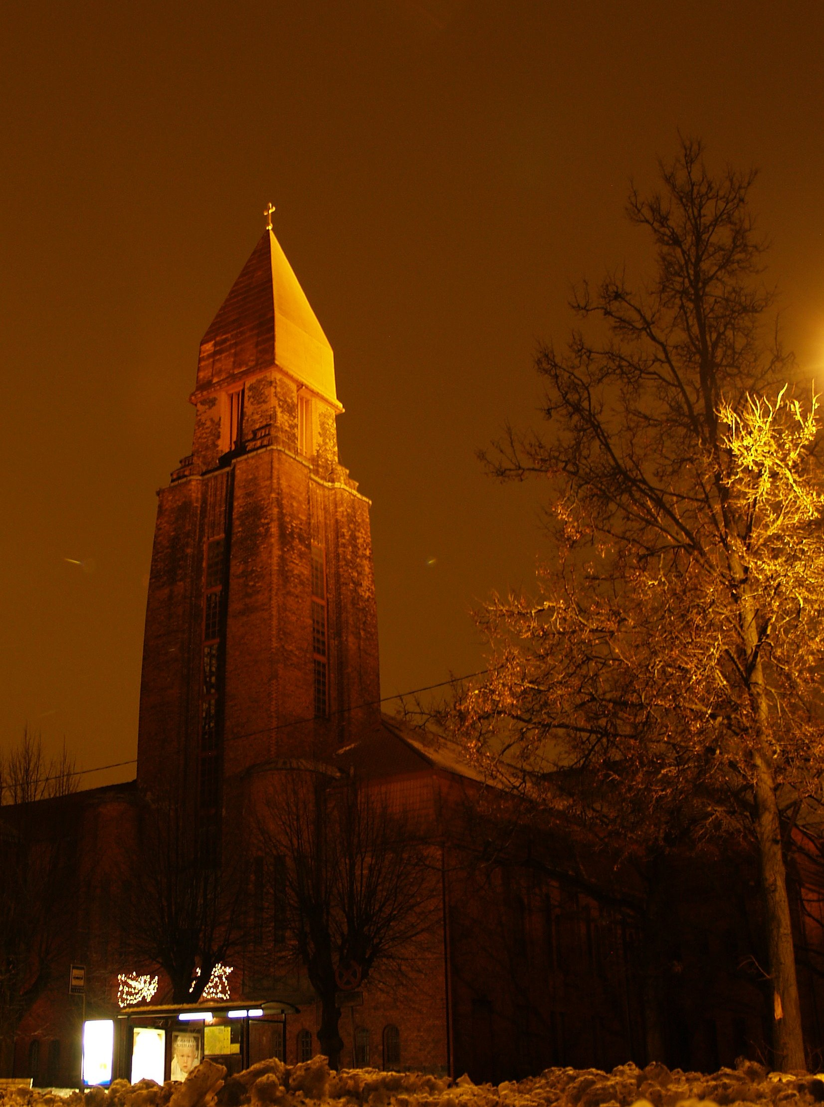 Tartu St. Paul's Church